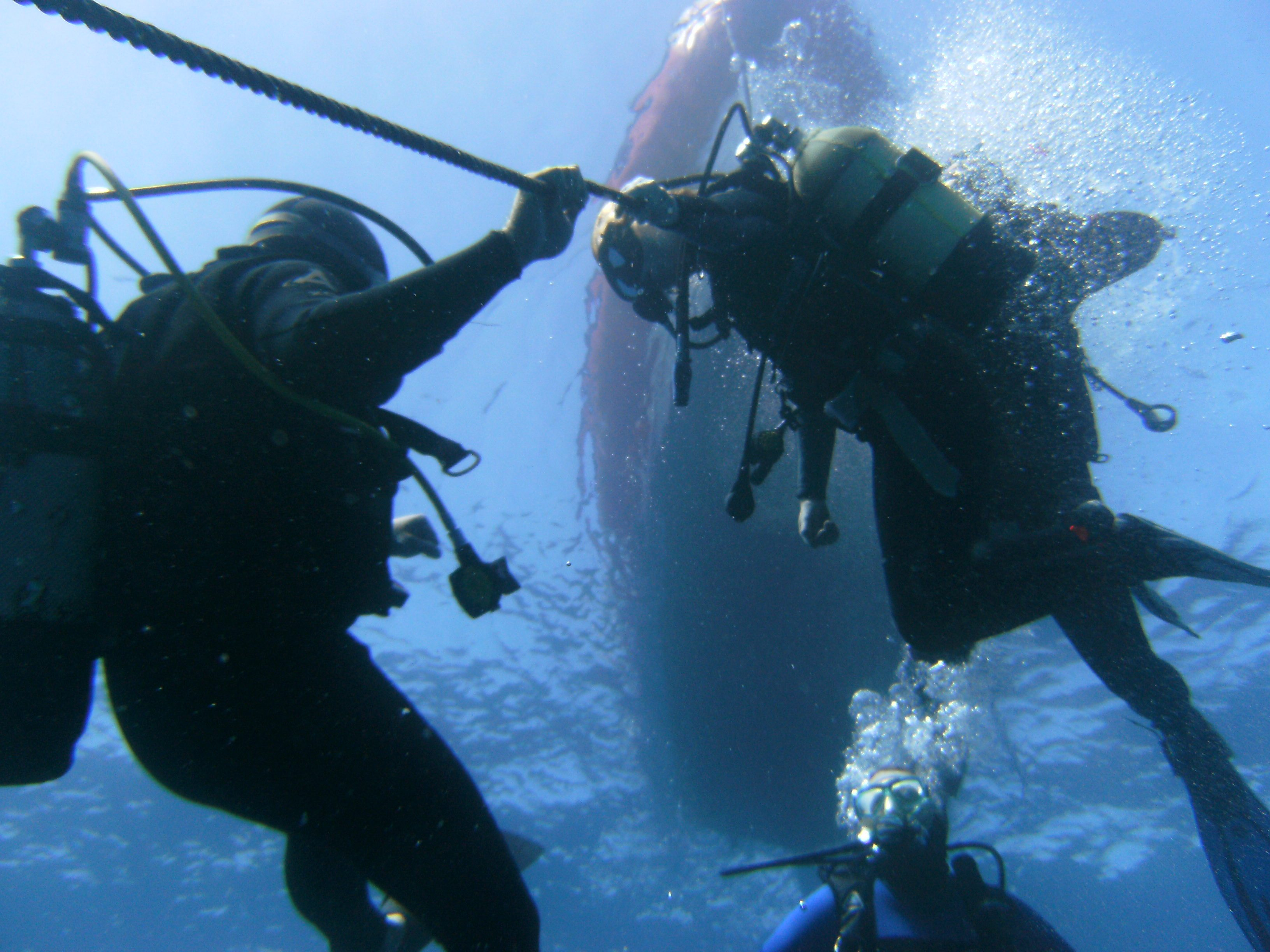 Safety stop at 5 metres